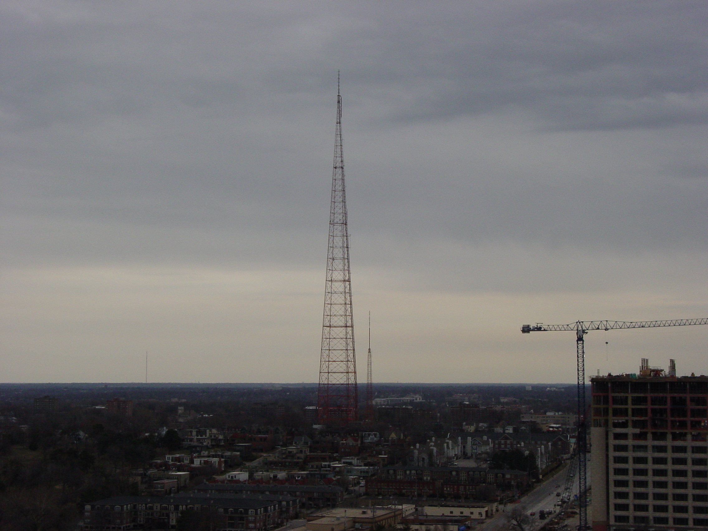 Tower Pacman 22:58, 11 March 2007 (UTC)